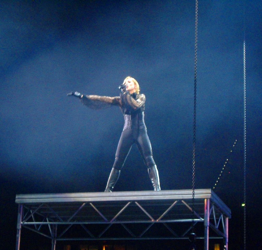 Madonna performing "Jump" on the Confessions Tour